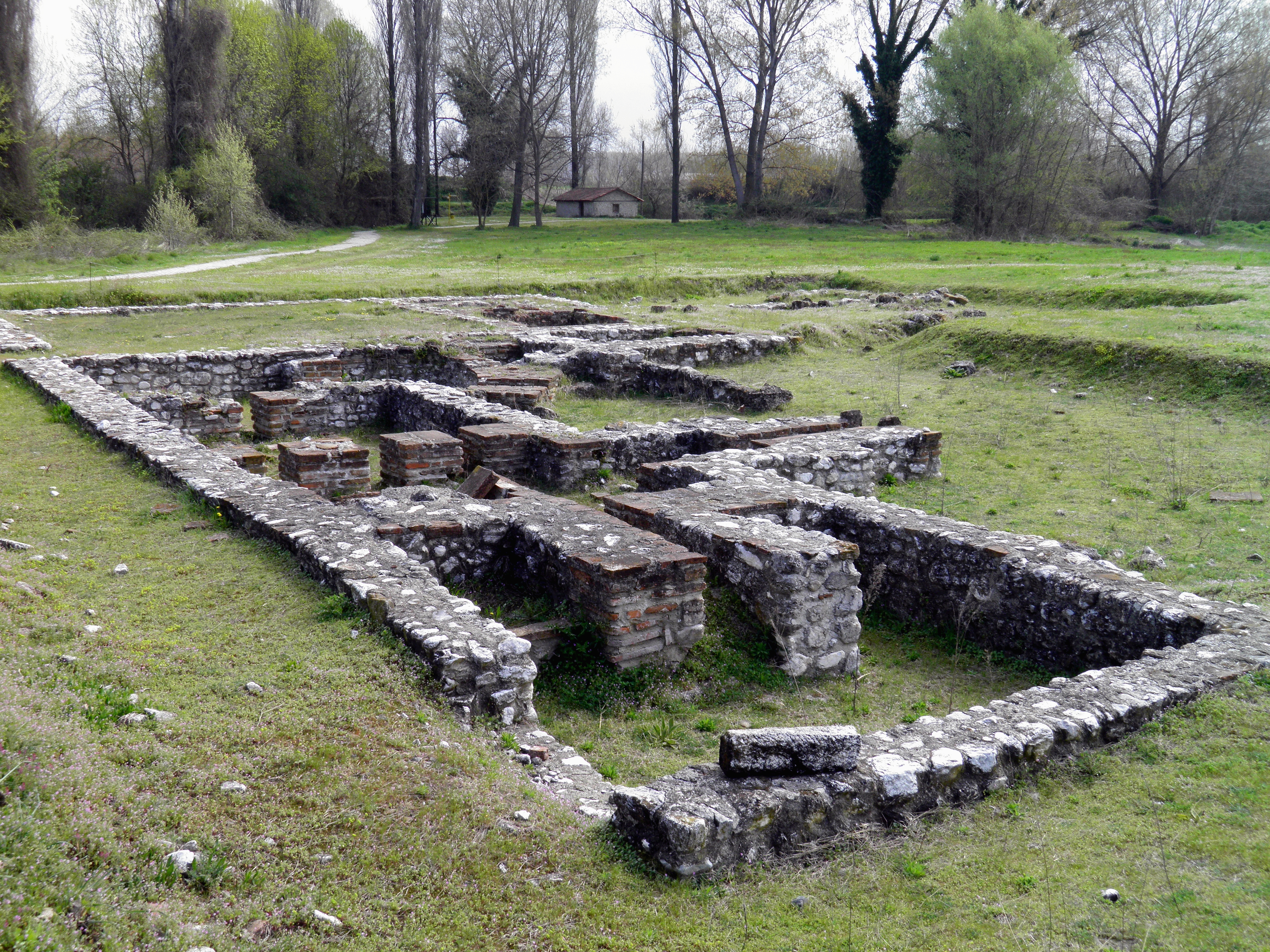 A small bath house complex was built to the northeast of the sanctuary of Zeus Olympios in Roman times. The building, in which two constructional phases can be distinguished, includes bath chambers, ancillary rooms, storage space and a well for water.